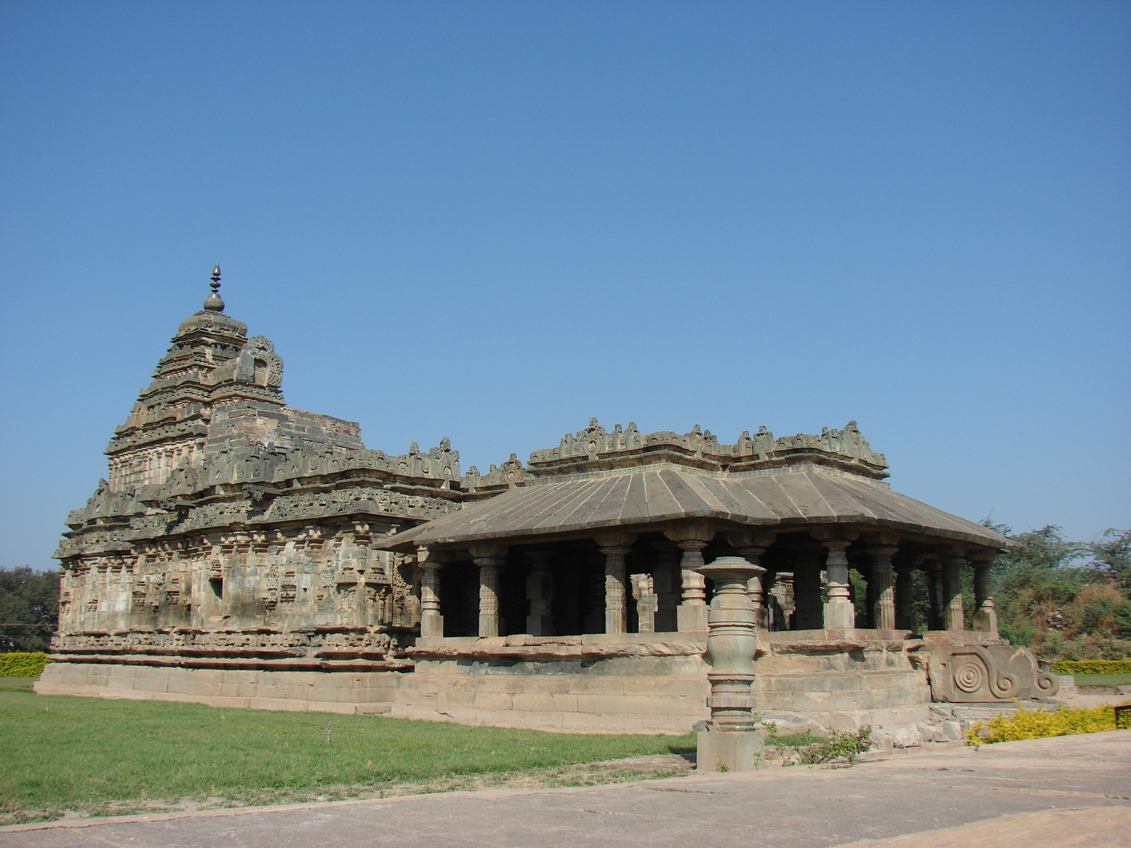 Jaina Basti, an ASI site of around 7-9AD, is a must visit monument with a vast history. But there needs a good documentary display at the site for the same.